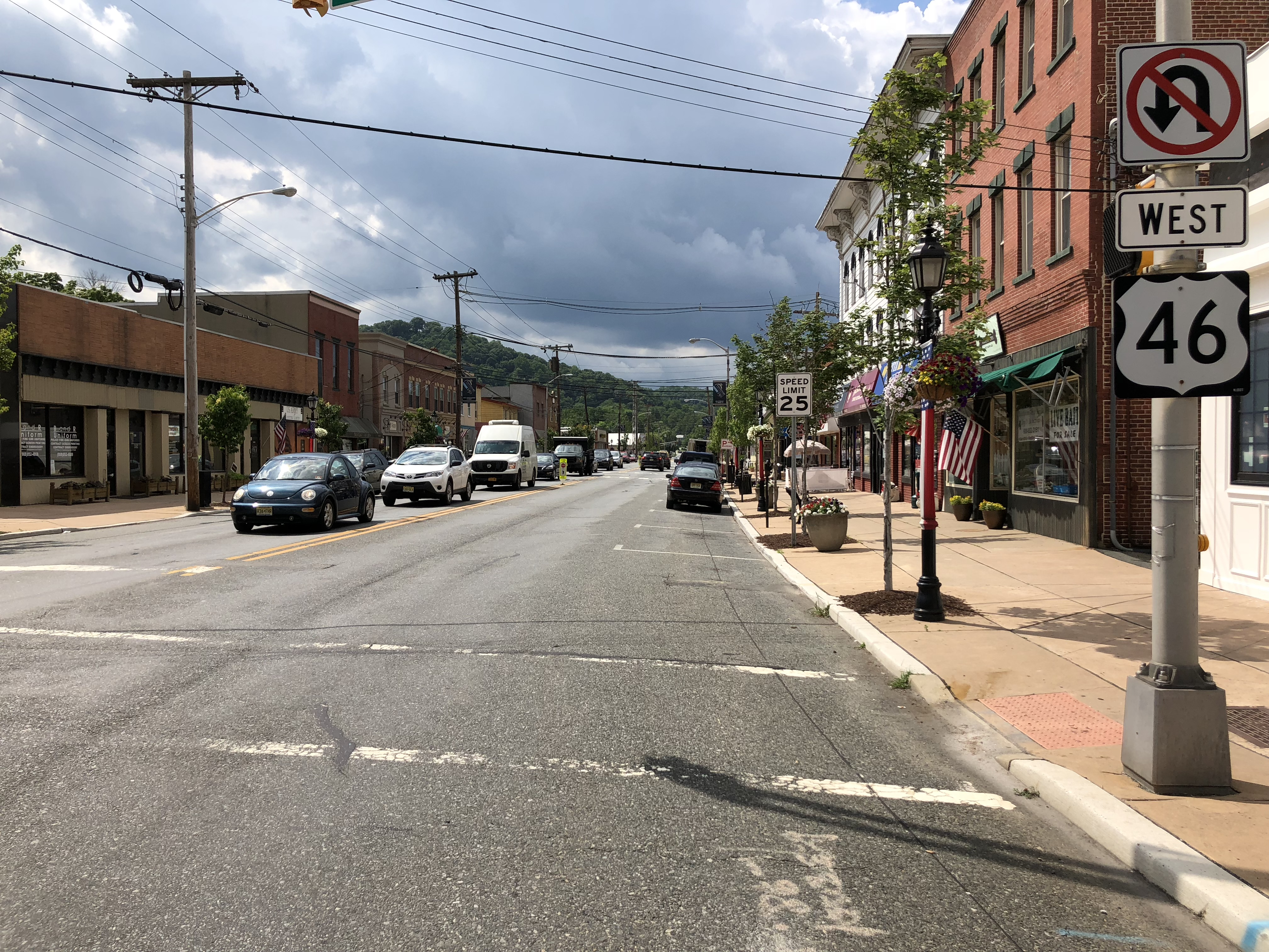 View west along U.S. Route 46 (Main Street) at Grand Avenue in Hackettstown, Warren County, New Jersey